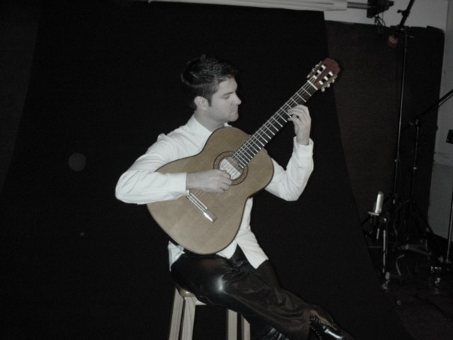 photograph of David Patterson, classical guitarist. work owned by David Patterson.